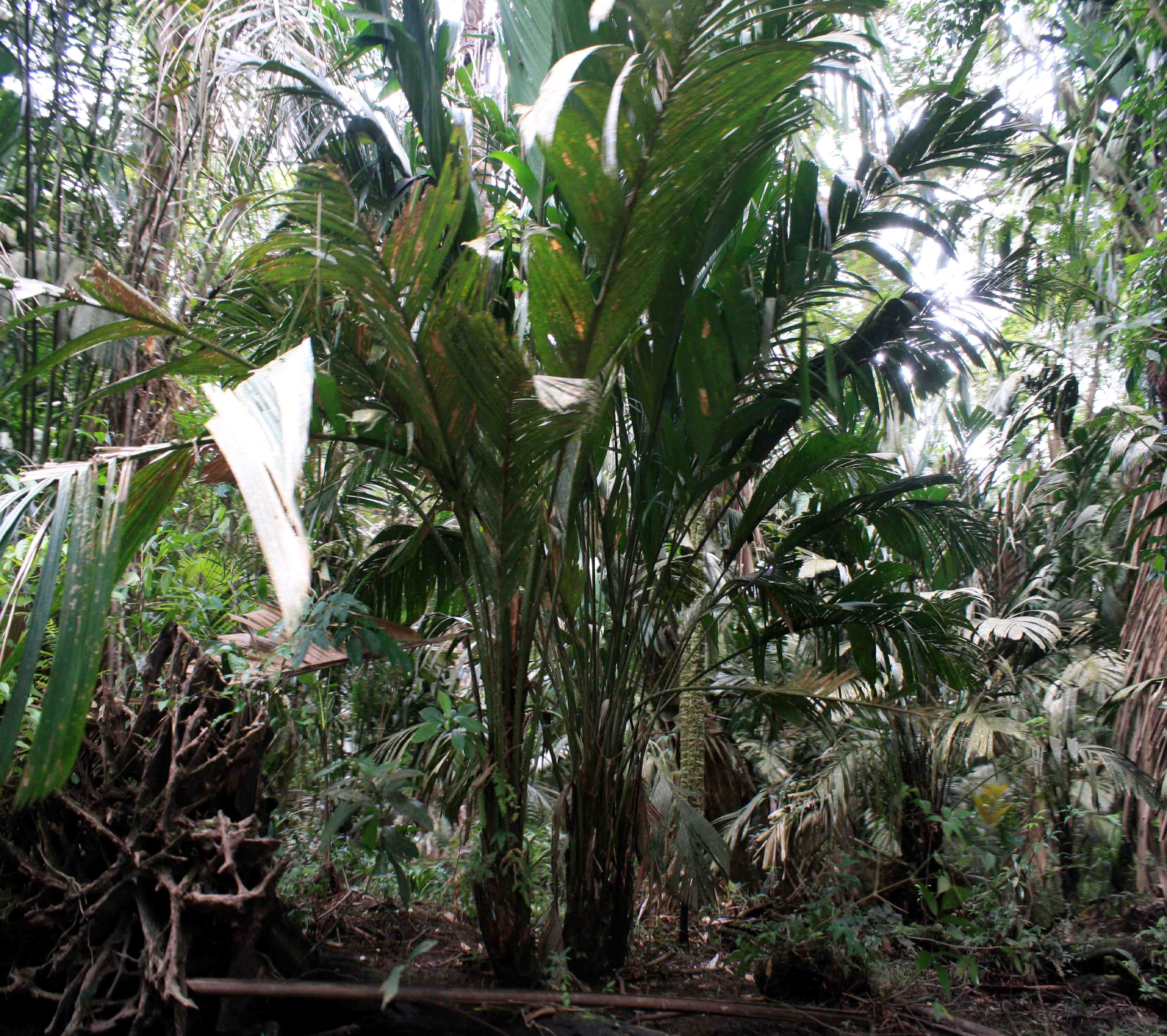 Manicaria saccifera juvenile stage in Costa Rica Cano Palma area for COTERC